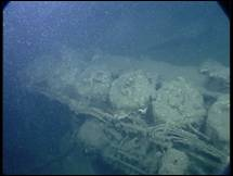 Part of the wreck of the Joffre, a schooner that sank on 9 August 1947 off the coast of Gloucester, Massachusetts, United States. The wreck is listed on the National Register of Historic Places.